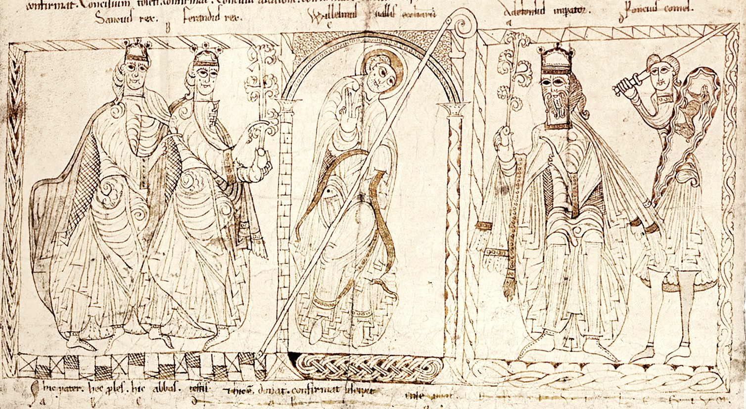 Privilegium Imperatoris